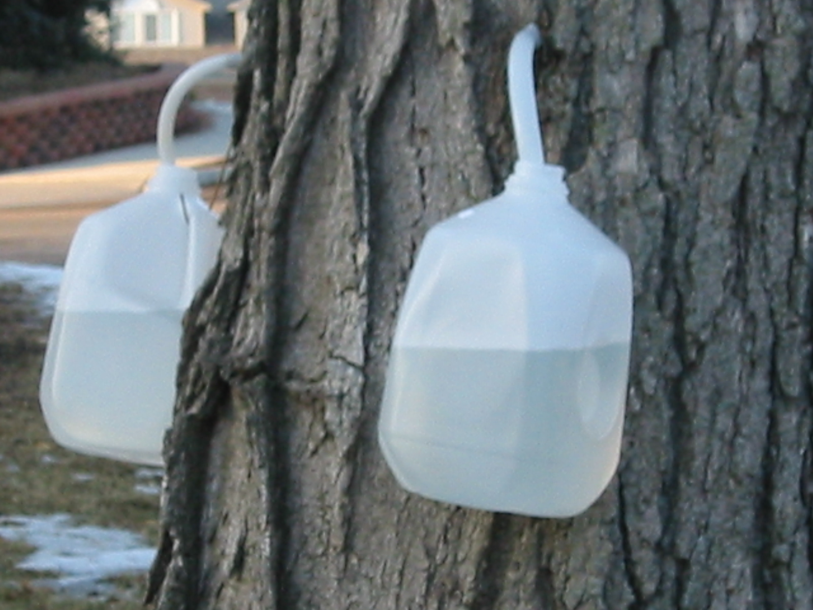 The sap from sugar maple trees are being collected in recycled plastic gallon milk jugs somewhere in Michigan, USA.